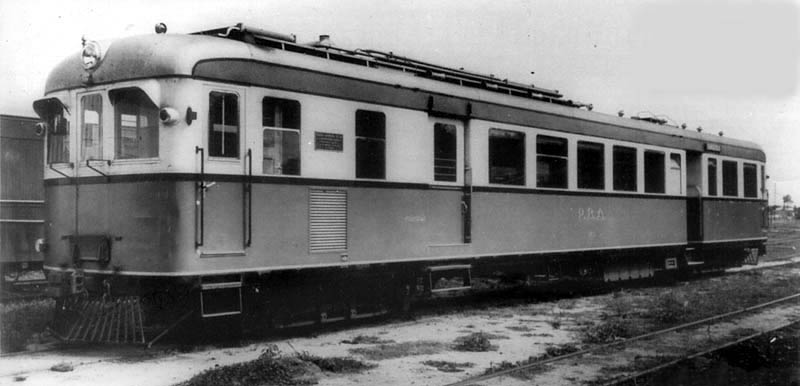 Railcar by Sulzer that ran on FC Provincial de Buenos Aires.